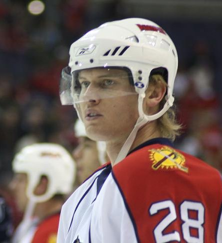 #28 Kamil Kreps, Florida Panthers